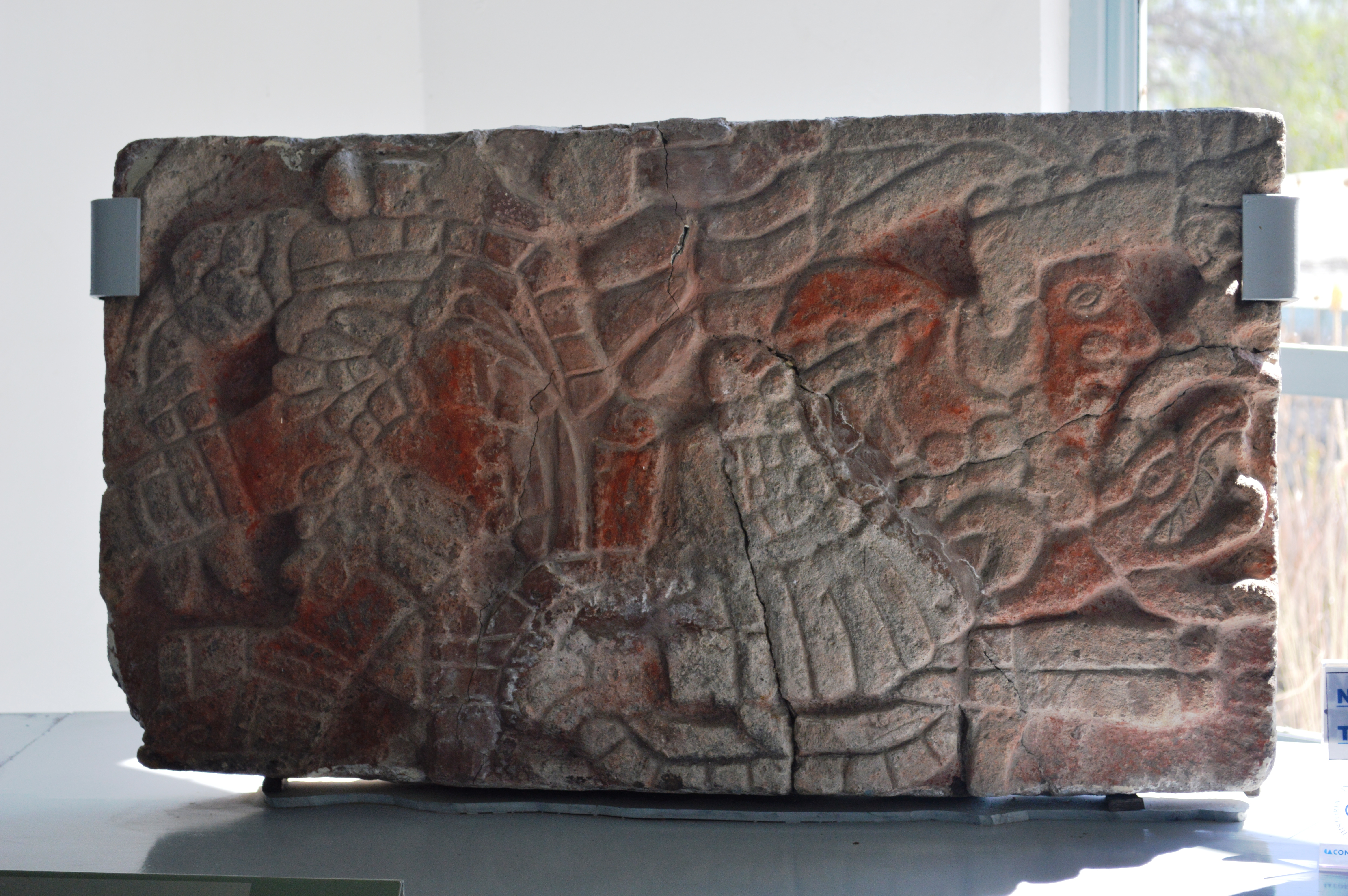 Image of a Toltec ruler in relief on a stone from the Tula archeological site in Hidalgo, Mexico